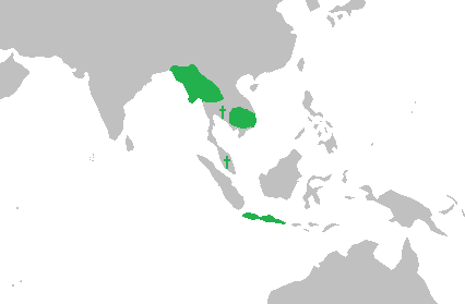 Range map of Pavo muticus; † = regional extinctions